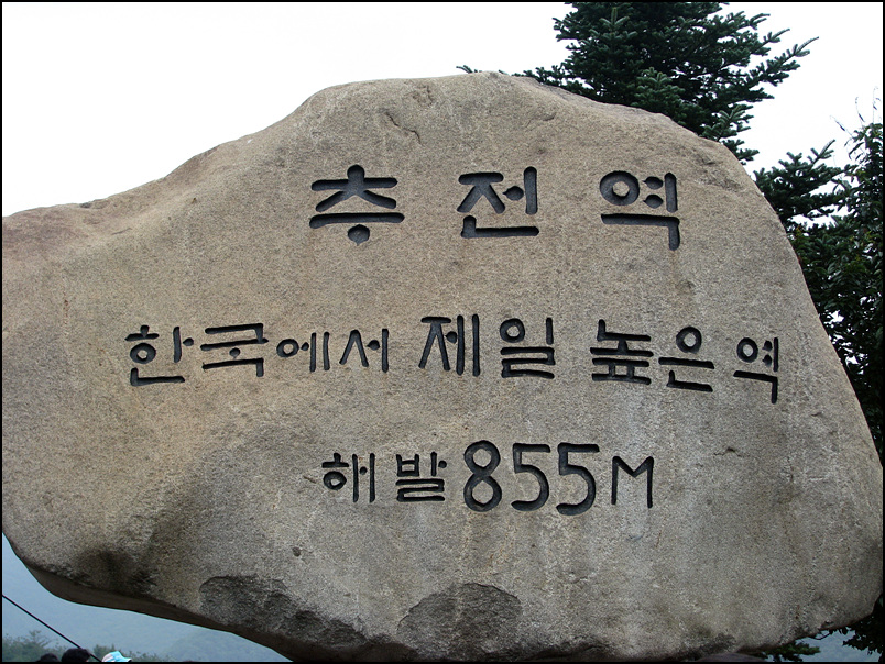 The monument in Chujeon Station, showing that Chujeon Station is located on the highest point in (South) Korea.